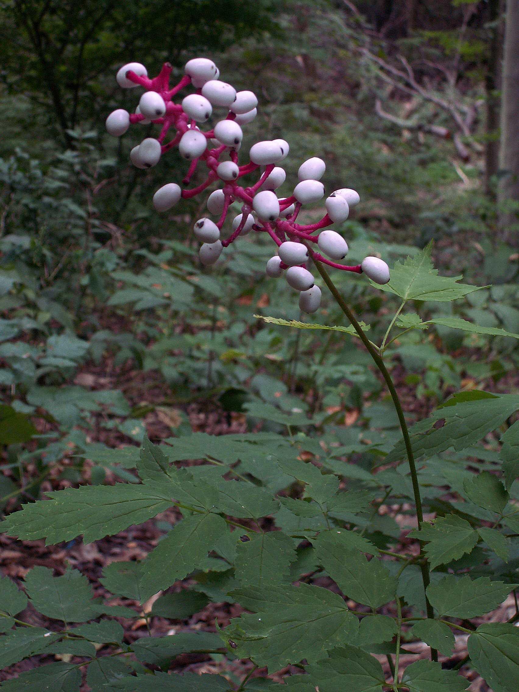 Doll’s Eyes (Actaea pachypoda) fruiting in Bird Park, Mount Lebanon, Pennsylvania